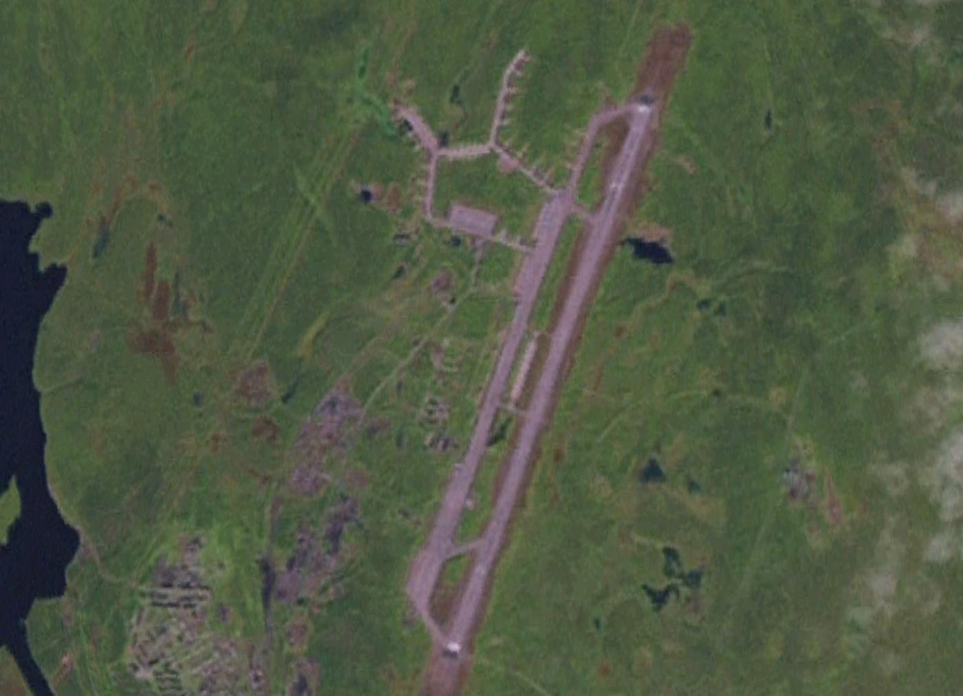 Olenya Airfield, Russia.